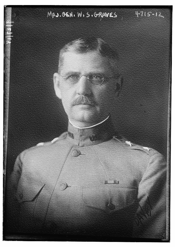 William Sidney Graves in 1918